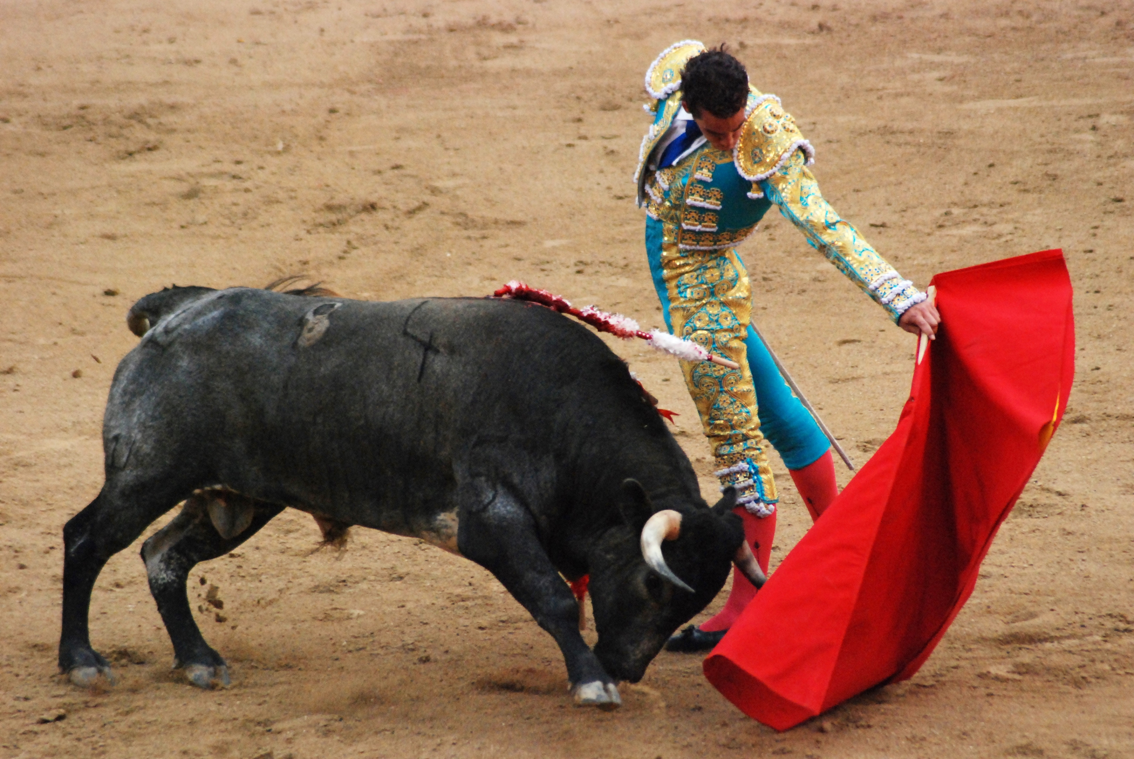 A matador seen with the bull in the final sequence of the bullfight. Taken in Madrid Spain.